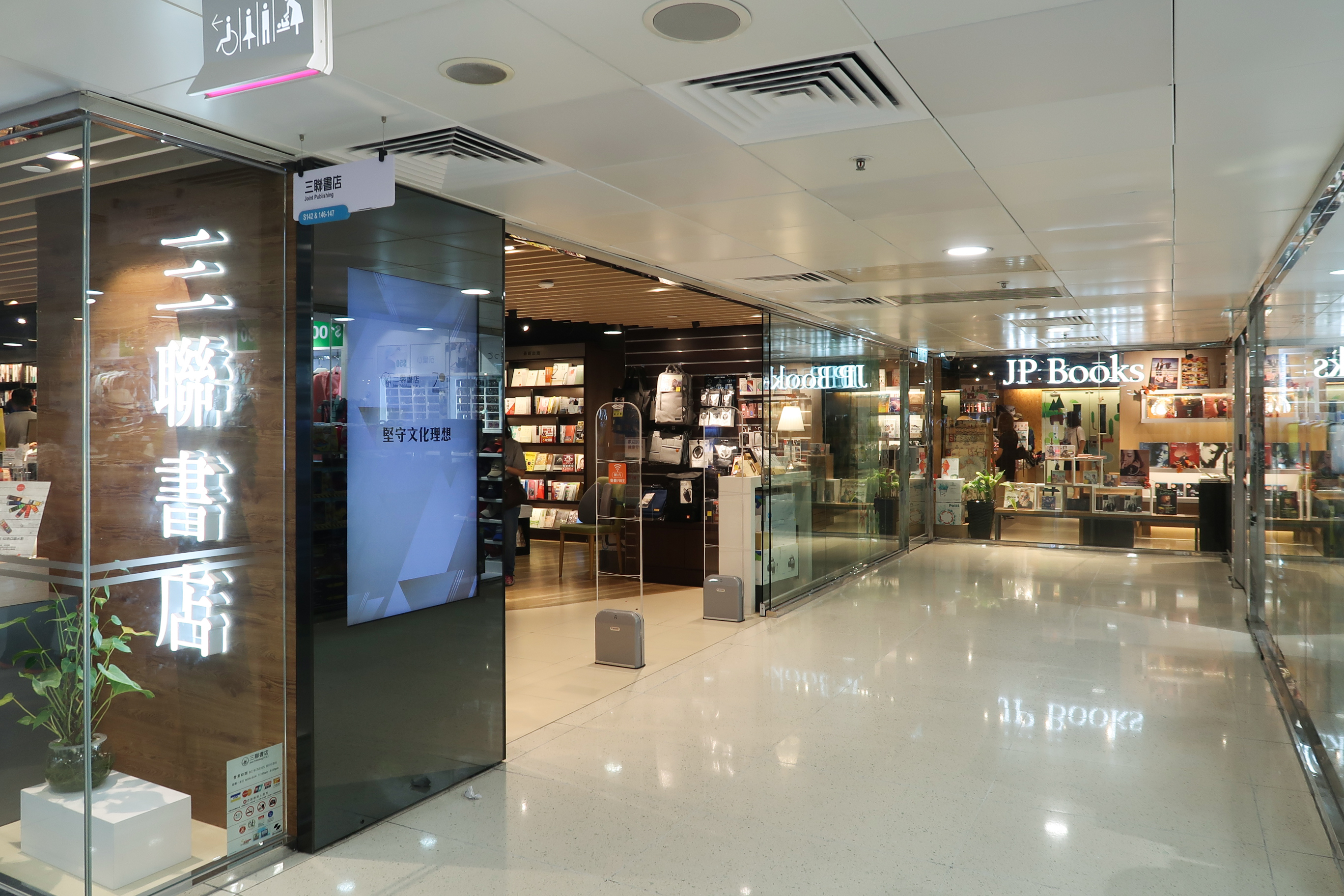 JP Books in Amoy Plaza